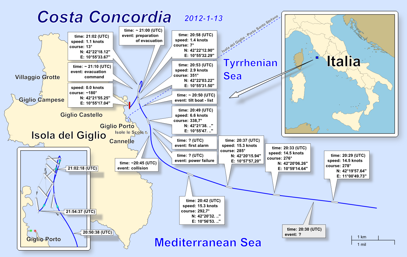 Costa Concordia: 13-1-2012 • full blue = trajectory defined by satellites • white boat = satellite location • red ship = wreck